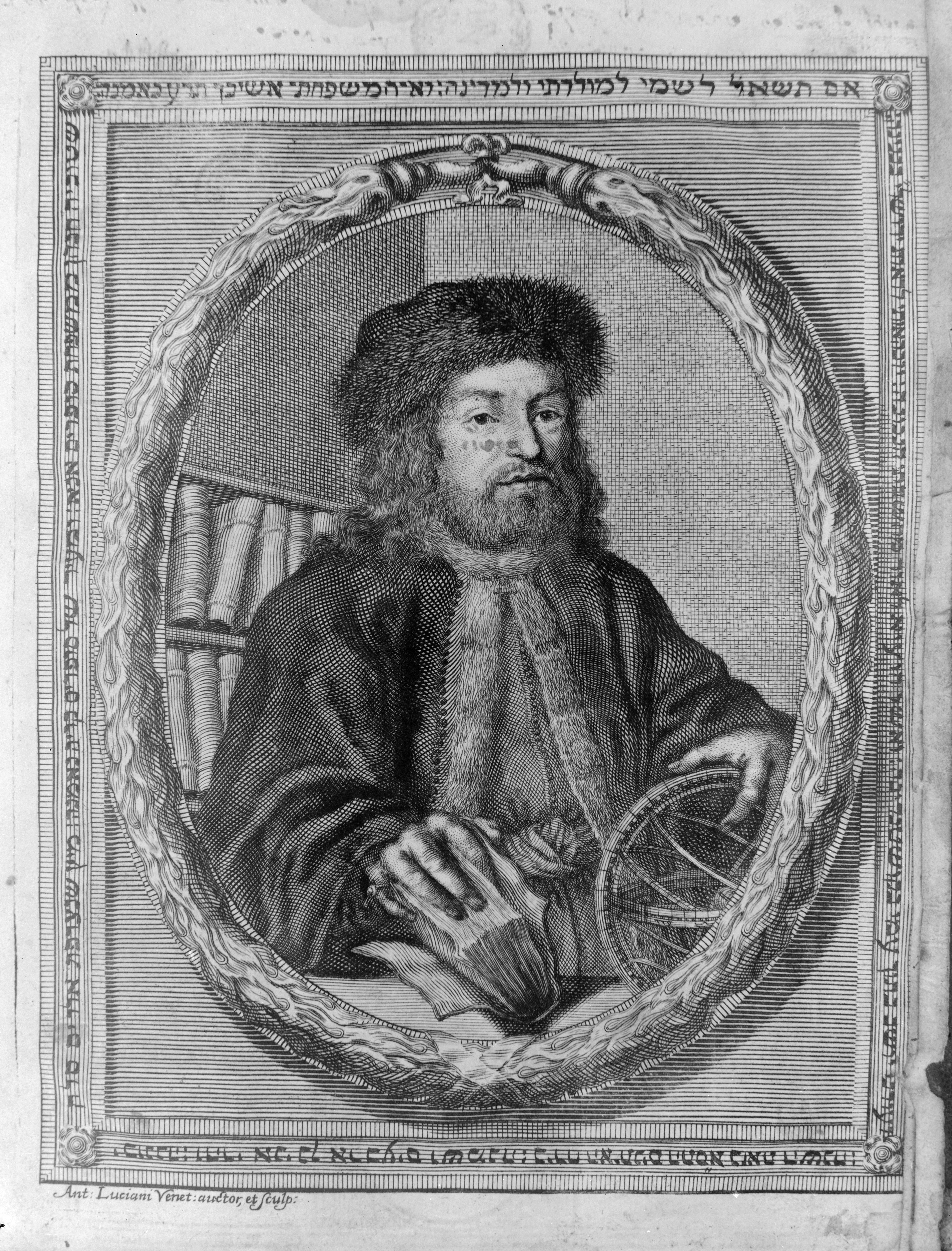 Portrait of Tobias Cohn Rare Books Keywords: Tobias Cohen